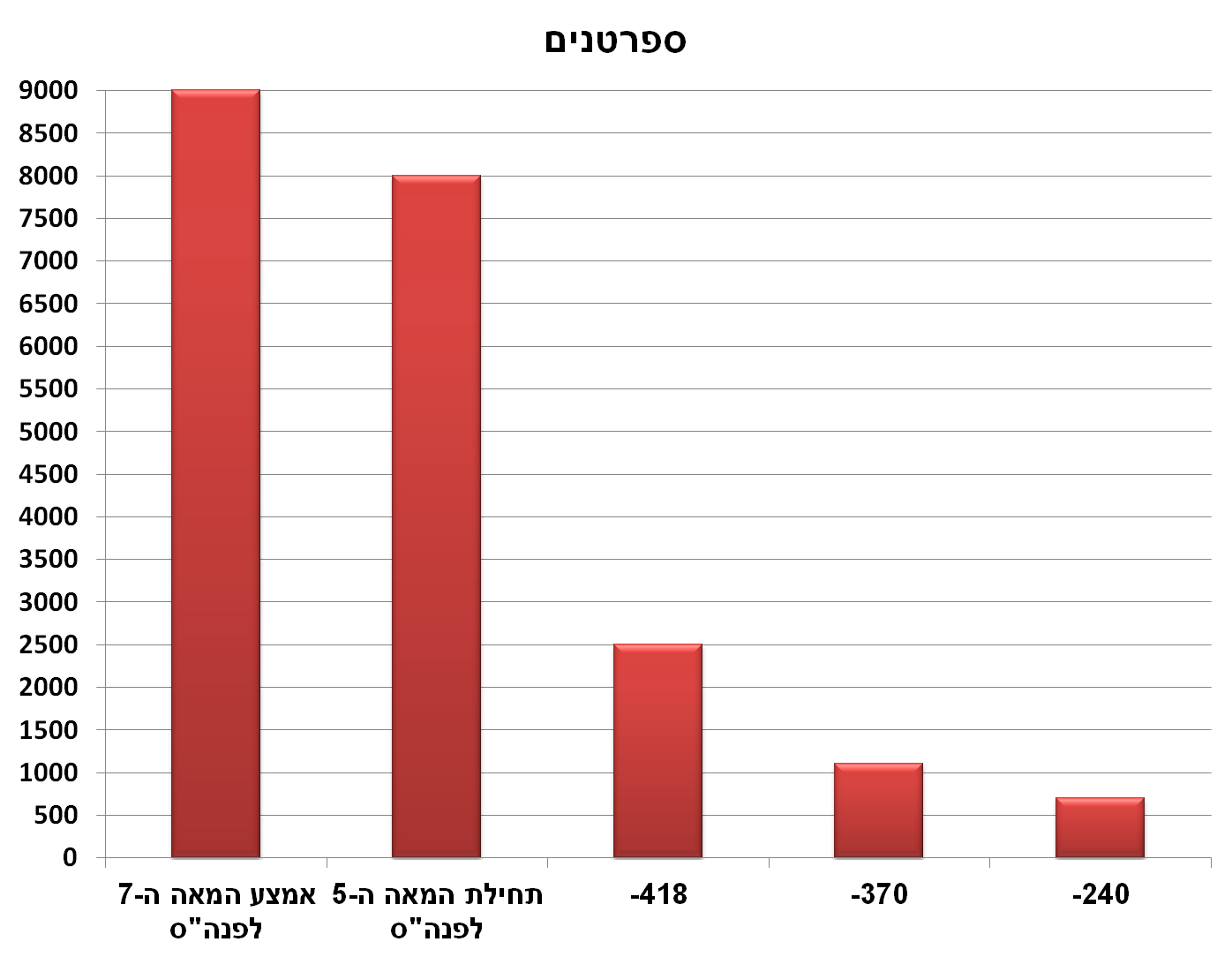 The decline in spartiate population